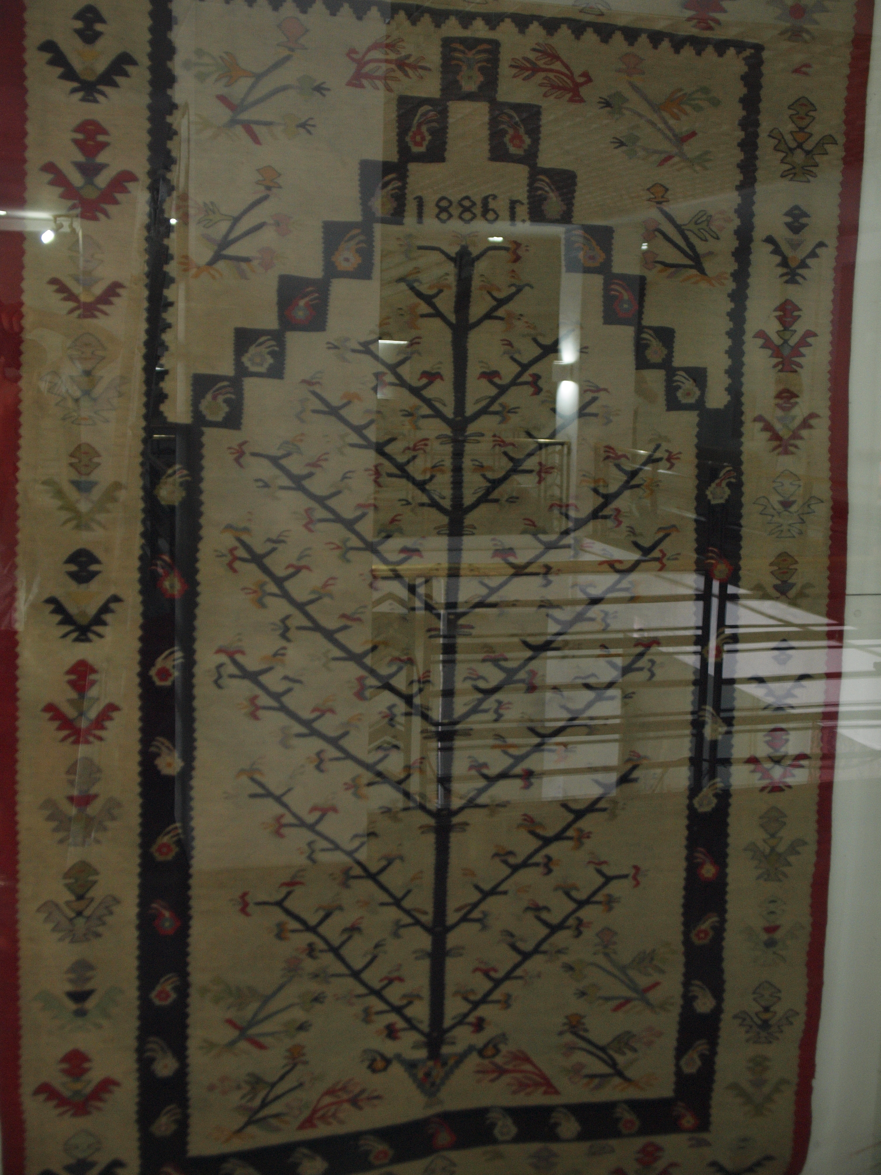 Pirot Kilim Mihrab Tree of life Belgrade ethnographical museum